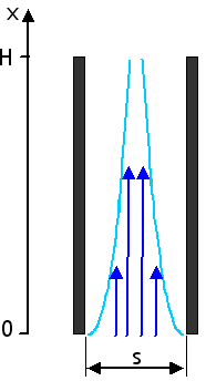 Increase of the boundary layers of a duct flow between two cooling fins. s= distance between the fins, H= height of the duct.